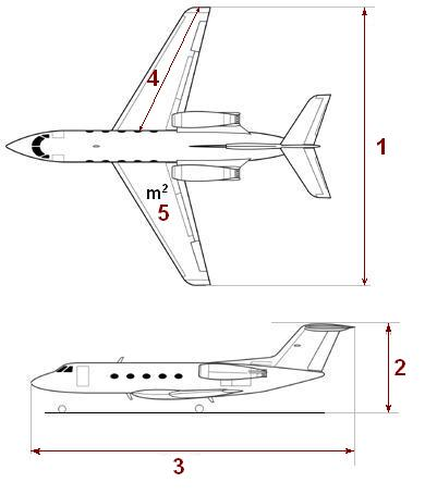 Diagram showing aircraft dimensions scheme, labeled with numerals 1-5: (1) wingspan, (2) height, ground to tail, (3) length of aircraft, (4) central length of a wing, and (5) surface area of a wing.